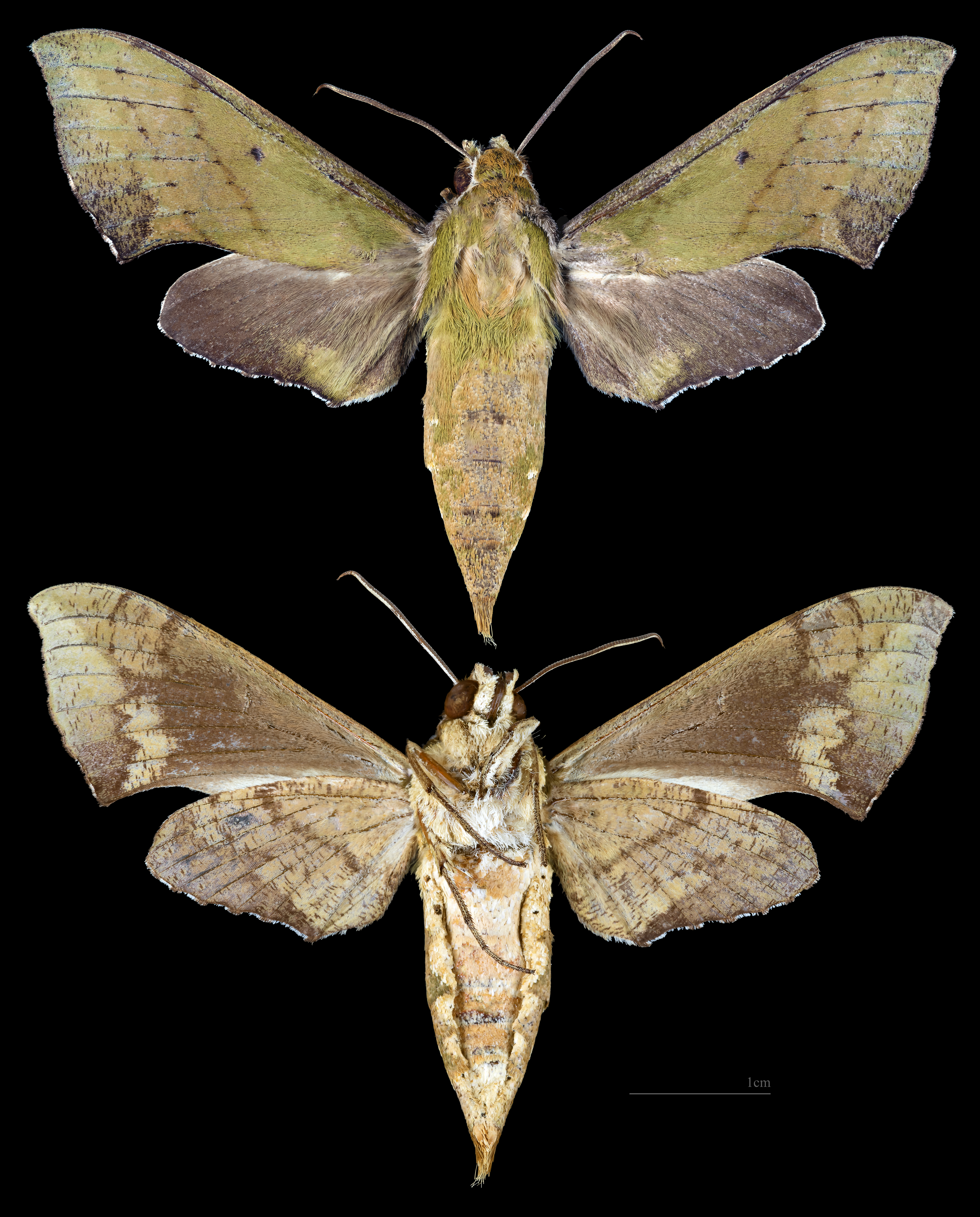 Xylophanes depuiseti - Two views of same specimen Collection of the Mathematician Laurent Schwartz